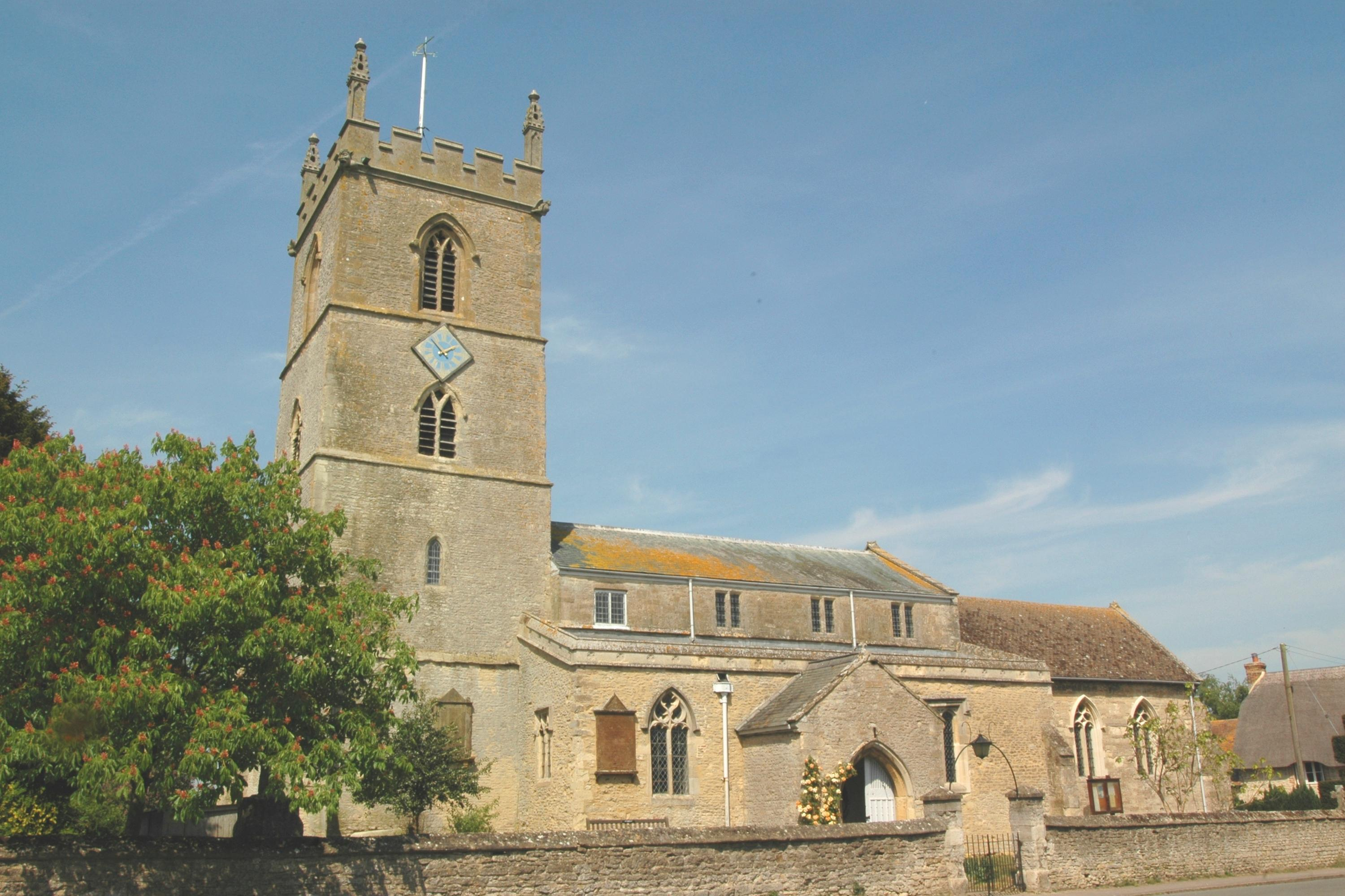 Parish church of St Mary the Virgin, Charlton-on-Otmoor, Oxfordshire, seen from the south